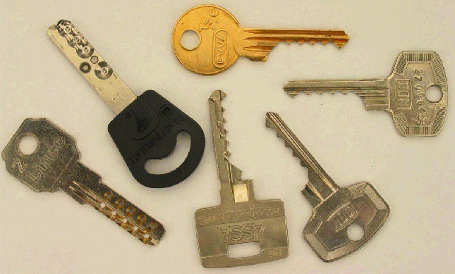 bumpkey photo. 画像は、 から転載